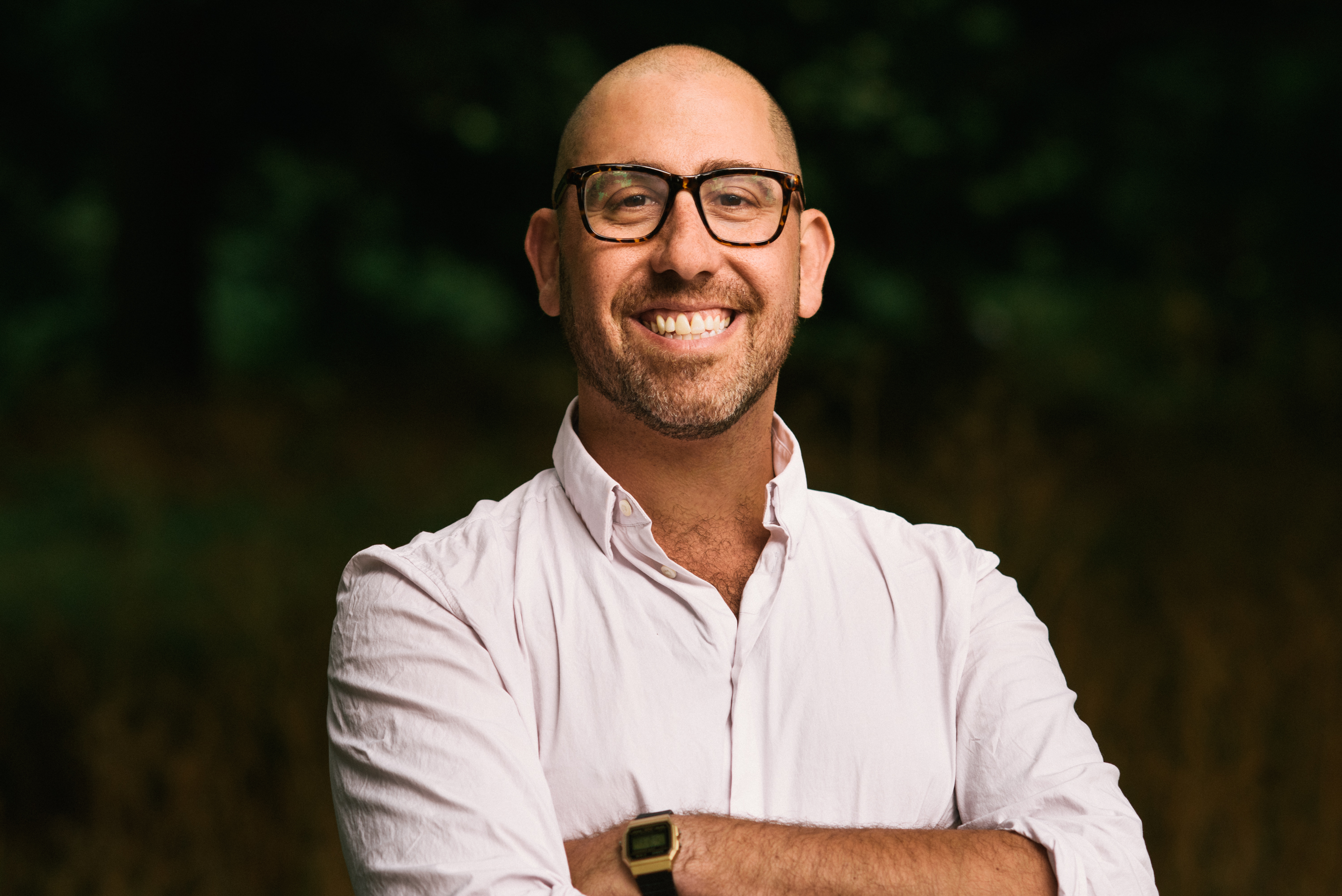 Stephen Robert Morse, film director/producer.